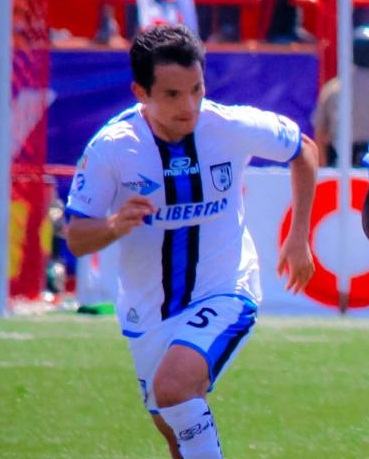 Mexican player Israel Lopez